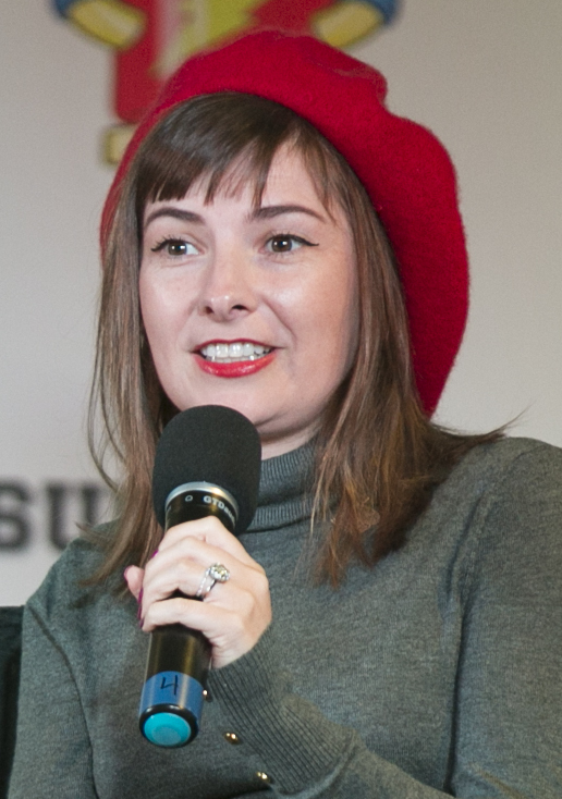 Cassandra Lee Morris at Animate Florida in 2017